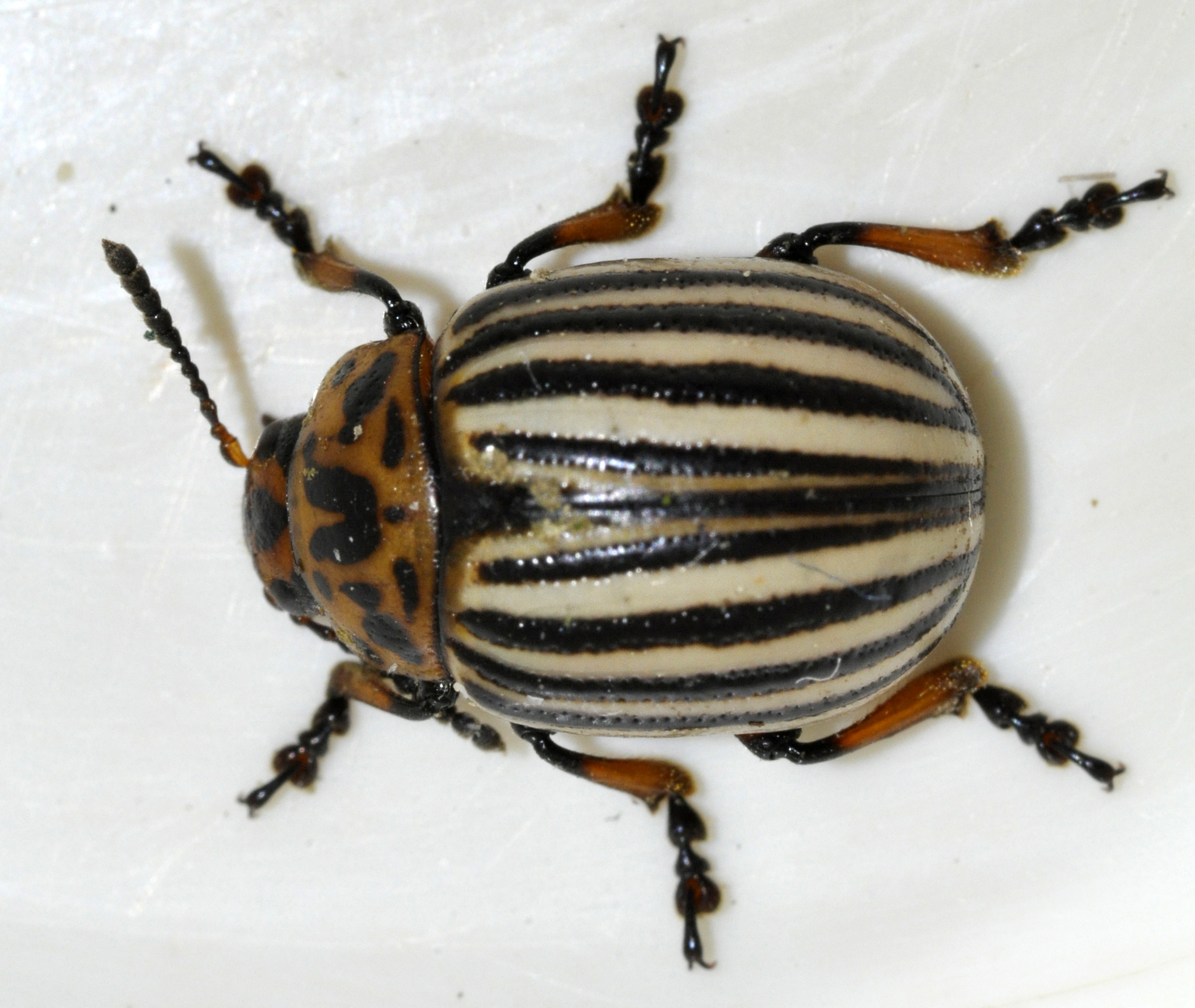 Leptinotarsa decemlineata (Say, 1824). Germany: Niedersachsen, Harz mountains, Landkreis Goslar, Prinzenteich near Clausthal-Zellerfeld.